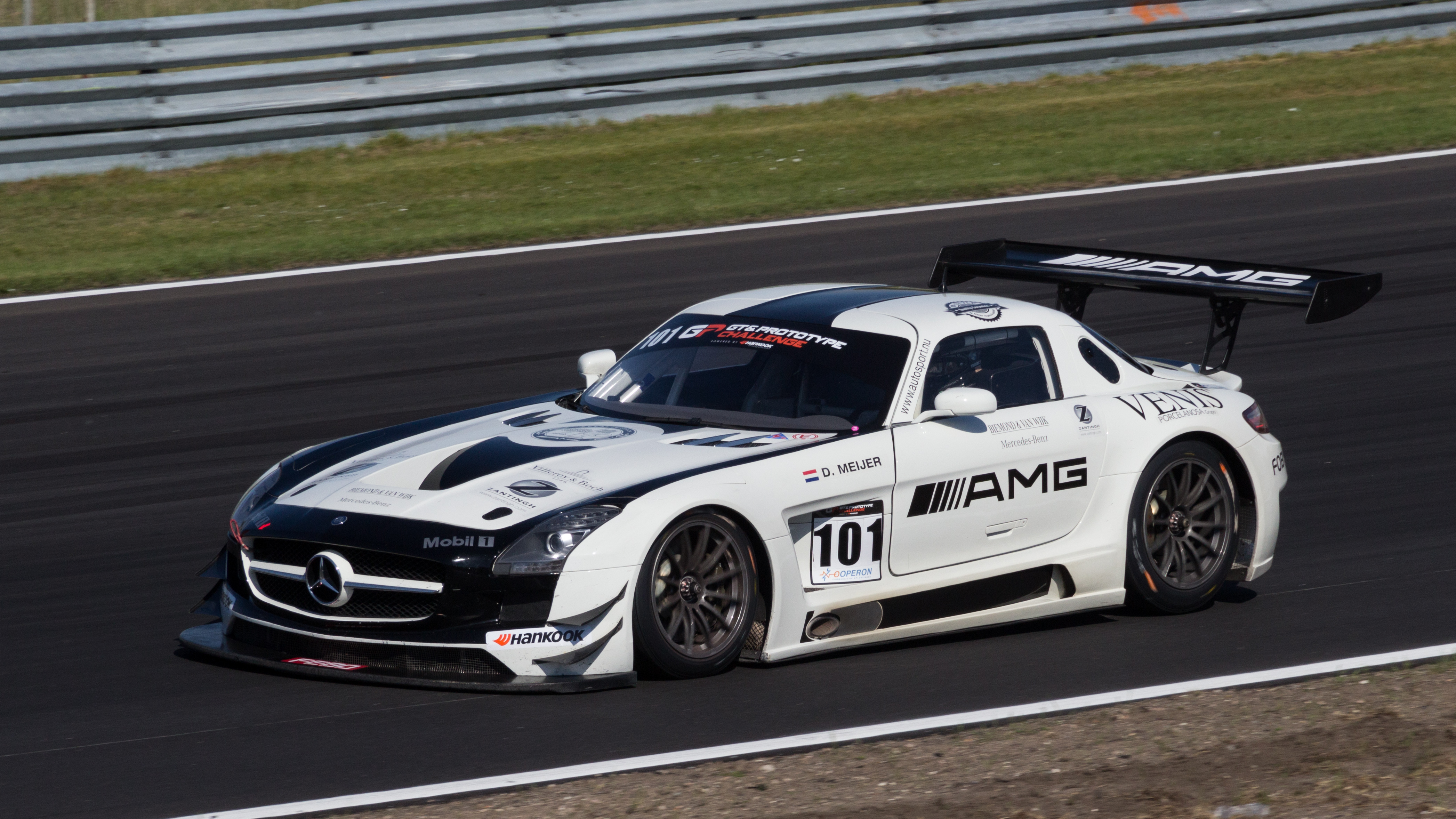 GT & Prototype Challenge at Zandvoort 2017